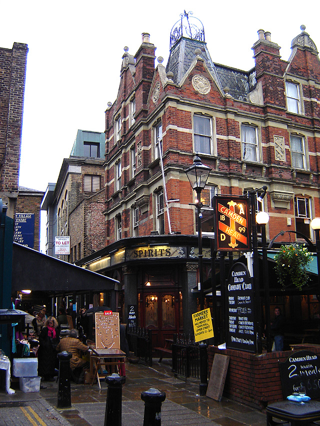 Camden Passage, The Angel, Islington, London, by the Camden Head pub. 5 November 2005. Photographer: Fin Fahey.